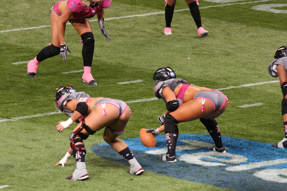 Lingerie Football League All-Star Games Tour match at Allphones Arena, Sydney.